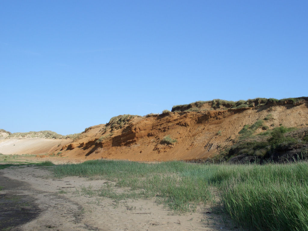 Morsum-Cliff in Morsum, Sylt